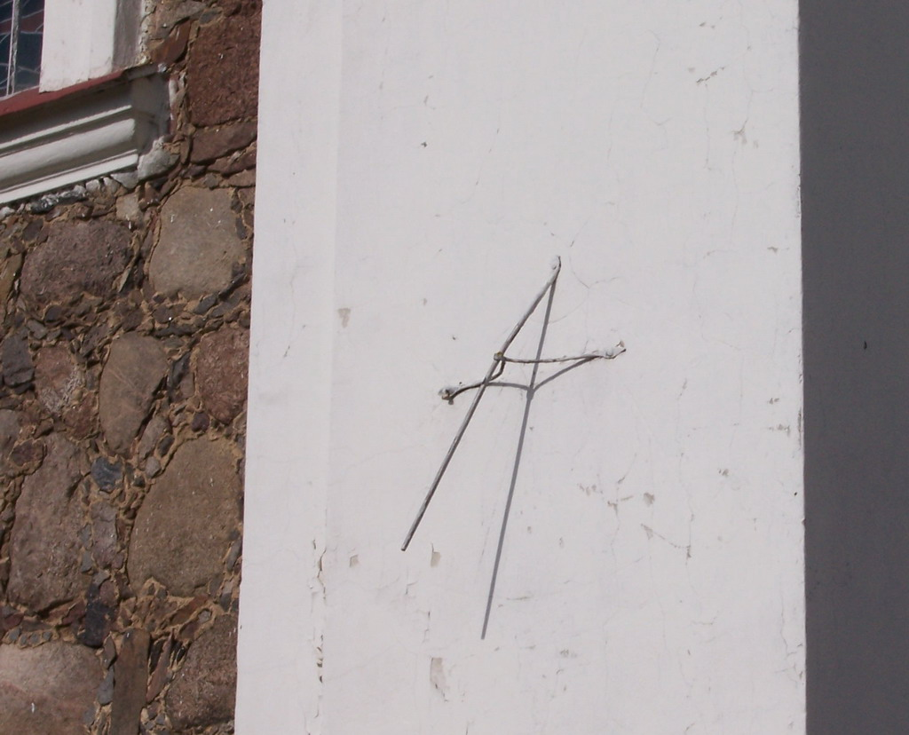 Сонечны гадзіннік